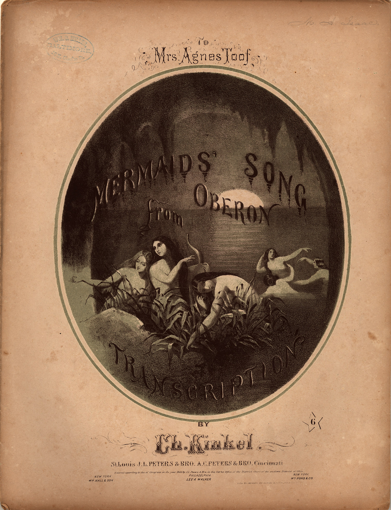 Sheet music cover, "Mermaids' Song" from Oberon, piano arrangement by Charles Kinkel